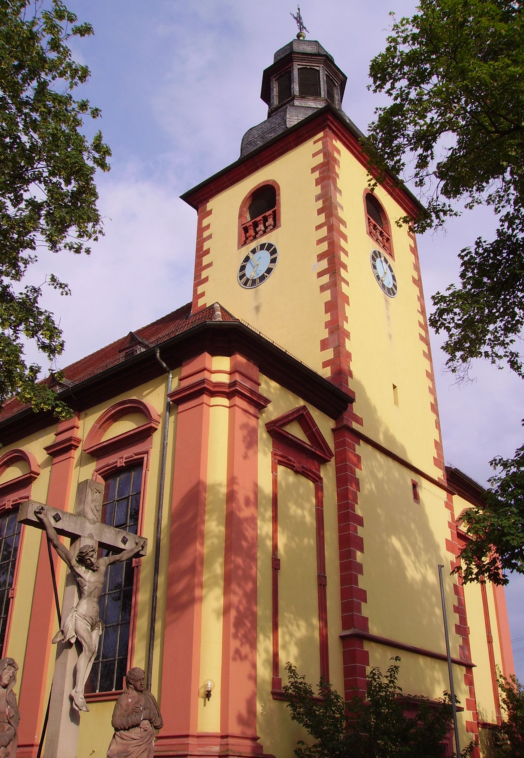 church of Abenheim, Germany